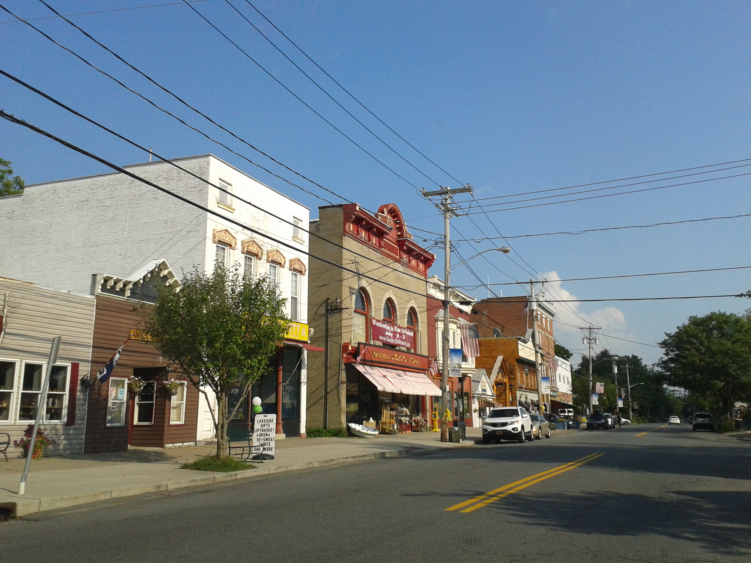 Northville Historic District